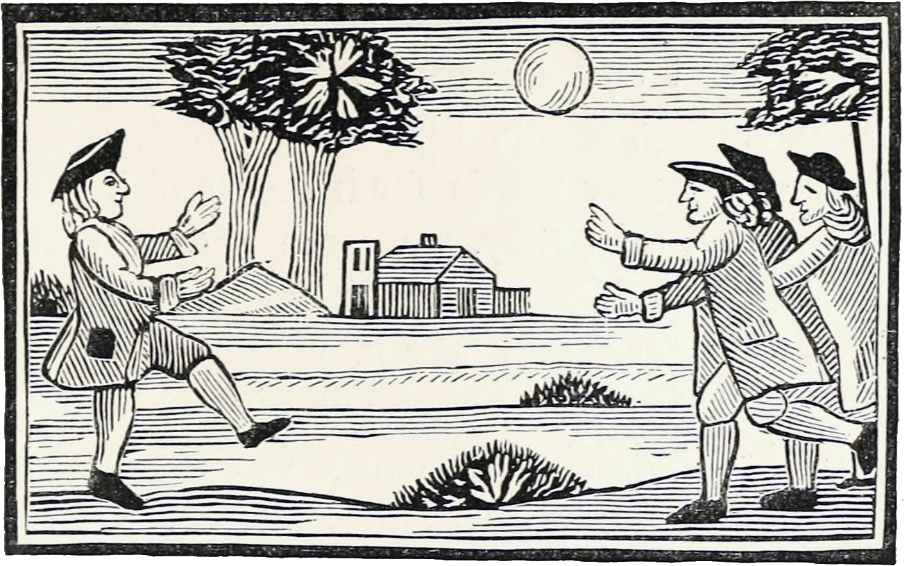 Illustration from an 18th century chapbook reproduced in Chap-books of the eighteenth century by John Ashton (1834).